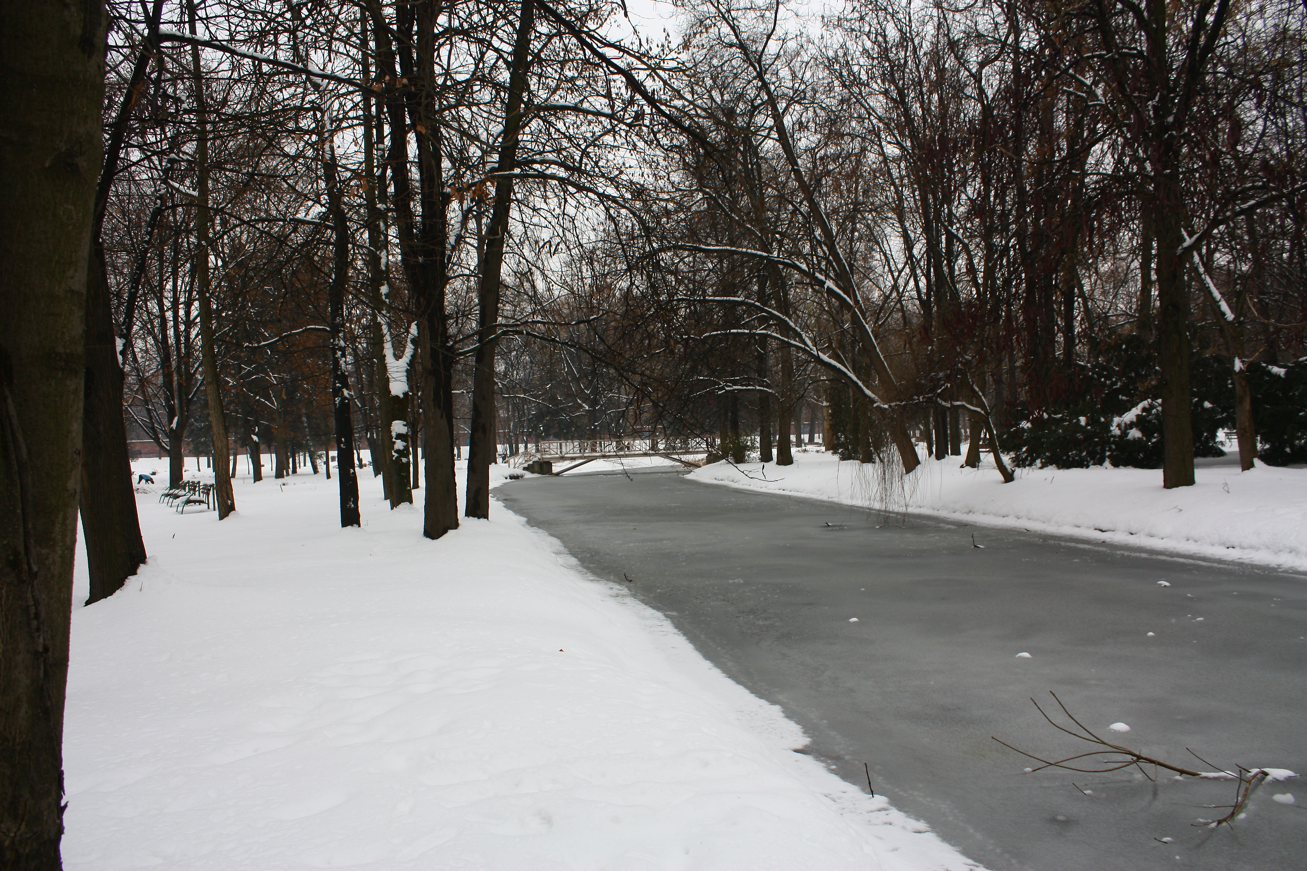 Skopje City Park, Macedonia